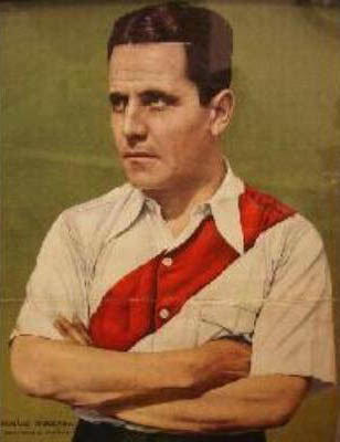 Bernabé Ferreyra poster published on El Gráfico in 1936.